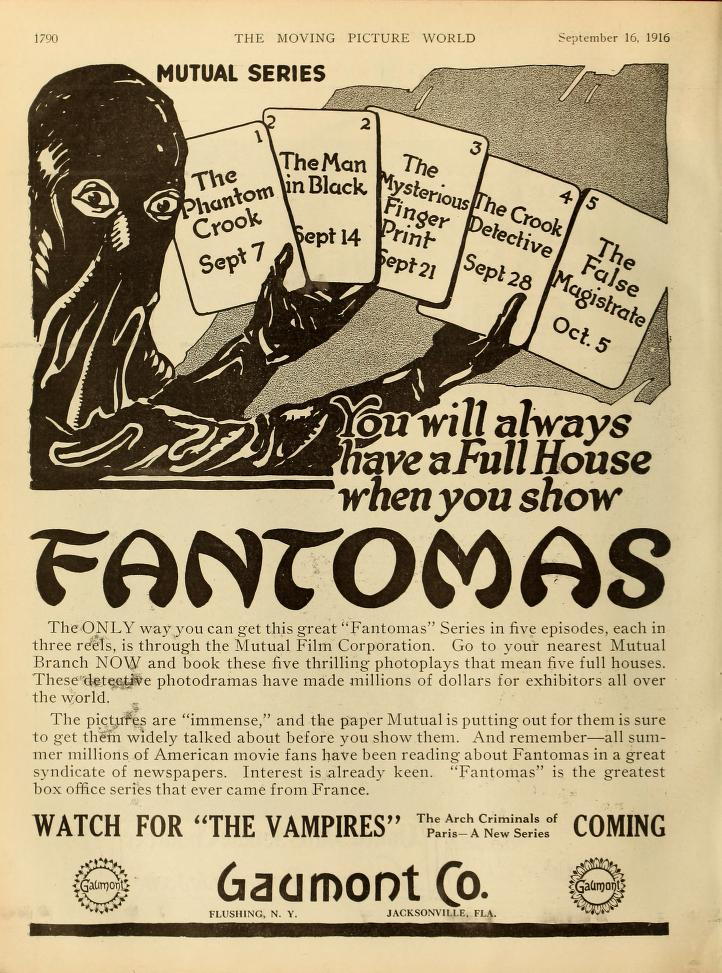 Advertisement in Moving Picture World for the film Fantômas (1913).